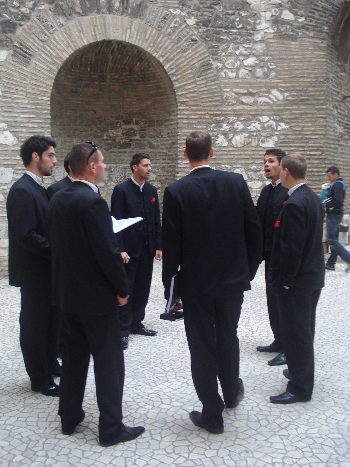 Žrnovnica singing troupe in the vestibule of the Diocletian's Palace in Split, Croatia